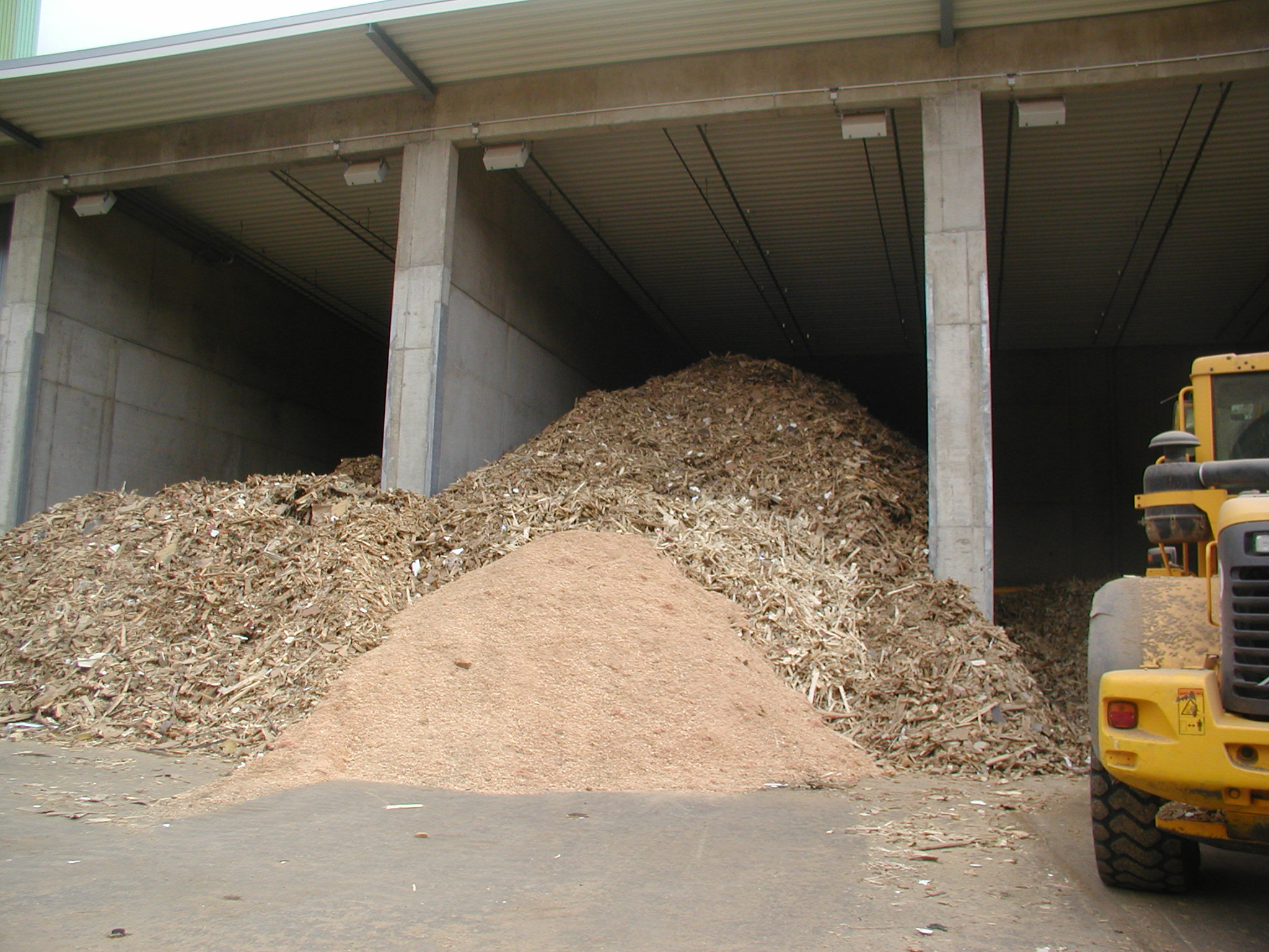 Photo of a waste wood pile in a biomass powerplant